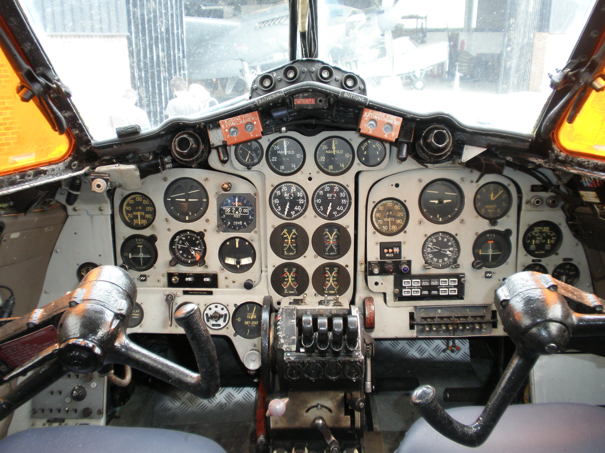 Heron cockpit